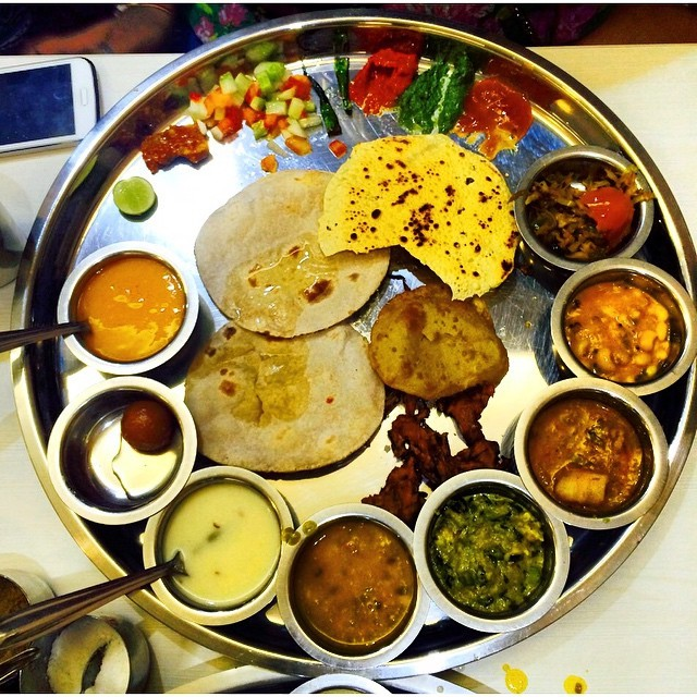 click is of a Gujarati thali/meal! It consists of roti (indian bread) Puri (a type of deep fried Indian bread) 4 vegetables 2 curries & 2 very tasty Sweets [ Alphonso mango rass (a kind of thick juice) & gulabjamun ] & after You are done with the eating part one gets a treat of cold refreshing drink, the mint chas (buttermilk)!